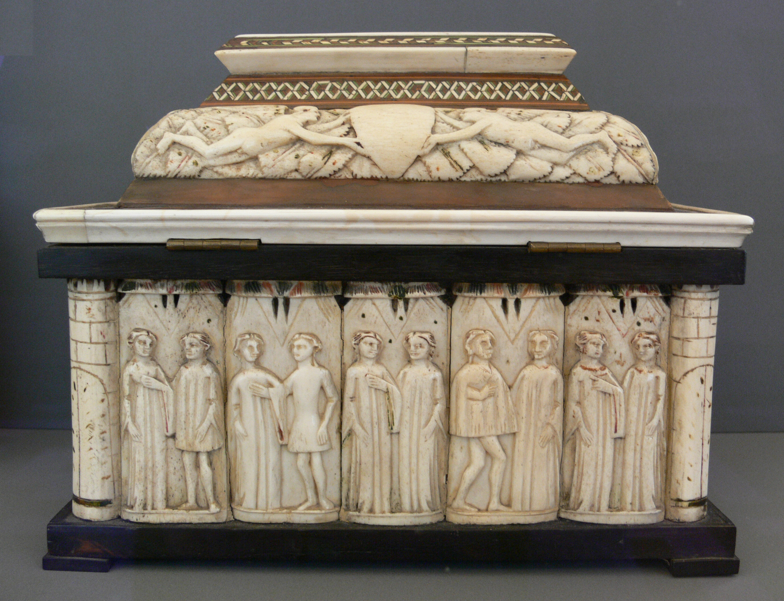 Northern Italy (Embriachi workshop): Jewellery Casket with Couples of Lovers; late 14th century; bone on wood, intarsia. Skulpturensammlung (inv. no. 690; acquired in 1835 for the Royal „Kunstkammer“ collection), Bode-Museum Berlin.